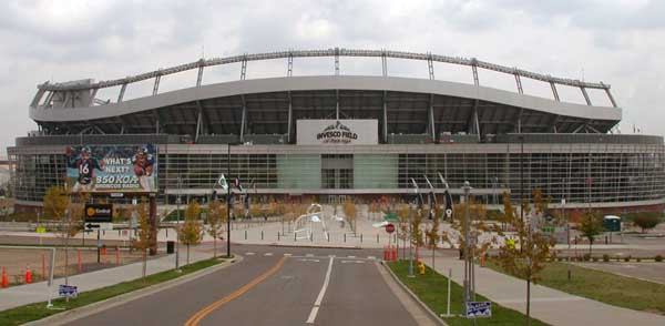 West entrance of INVESCO Field at Mile High, in Denver, Colorado (taken Oct. 11, 2004)© 2004 Matthew Trump07:45, 10 November 2004 . . Decumanus . . 600×294 (56,126 bytes)